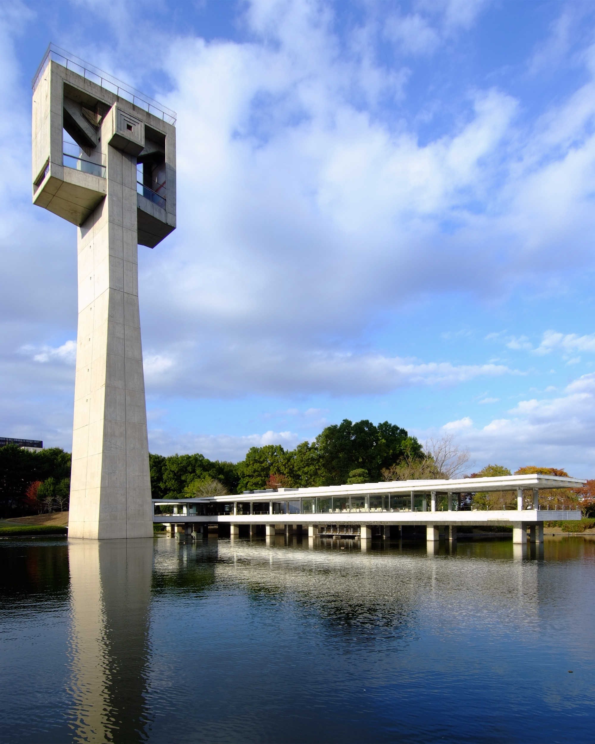 Matumi Tower, at Tsukuba Ibaraki Japan, design by Kiyonori Kikutake, 1976.